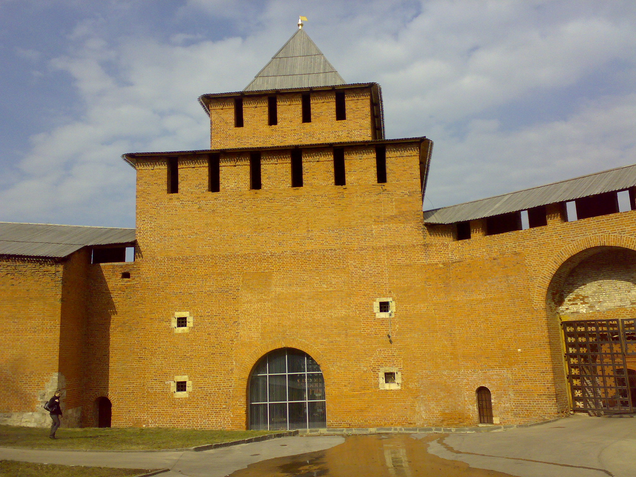 Ivanovskaya Tower of Kremlin